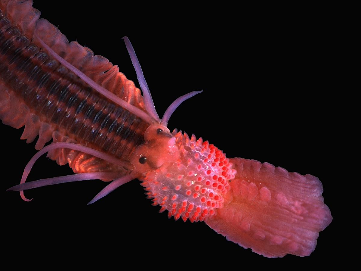 Polychaete from the Belgian continental shelf. Coloured with eosine to facilitate sorting and identification. Body width about 3 mm. Sampled 2001.